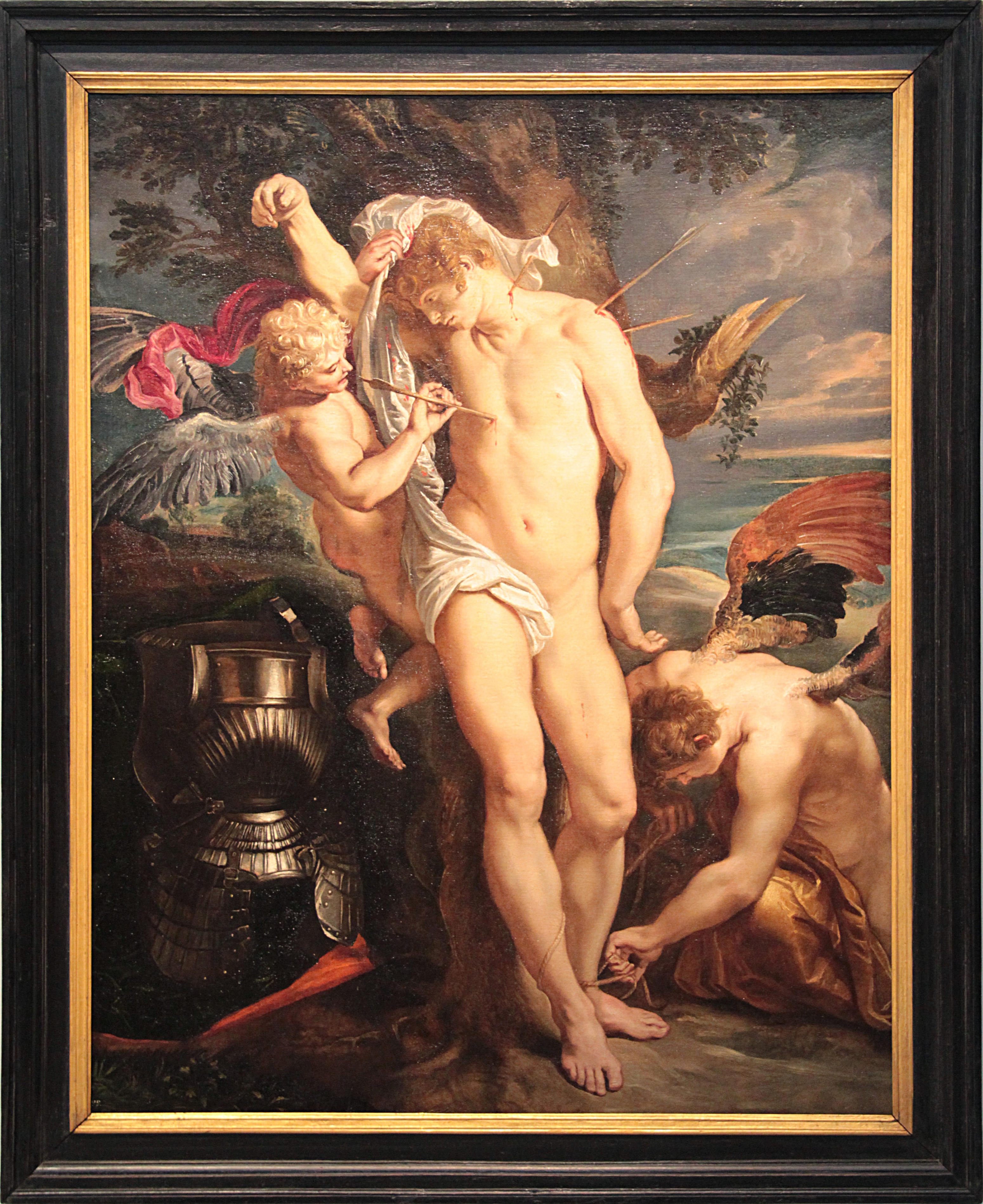 San Sebastian rescued by angels, oil on canvas made after 1604, attributed to Peter Paul Rubens (1577-1640) ? - Work as part of the collection Schoeppler (Germany) paid to long-term Rubenshuis Museum of Antwerp. Photography realized during the exhibition "l'Europe de Rubens" of the Louvre-Lens Museum.